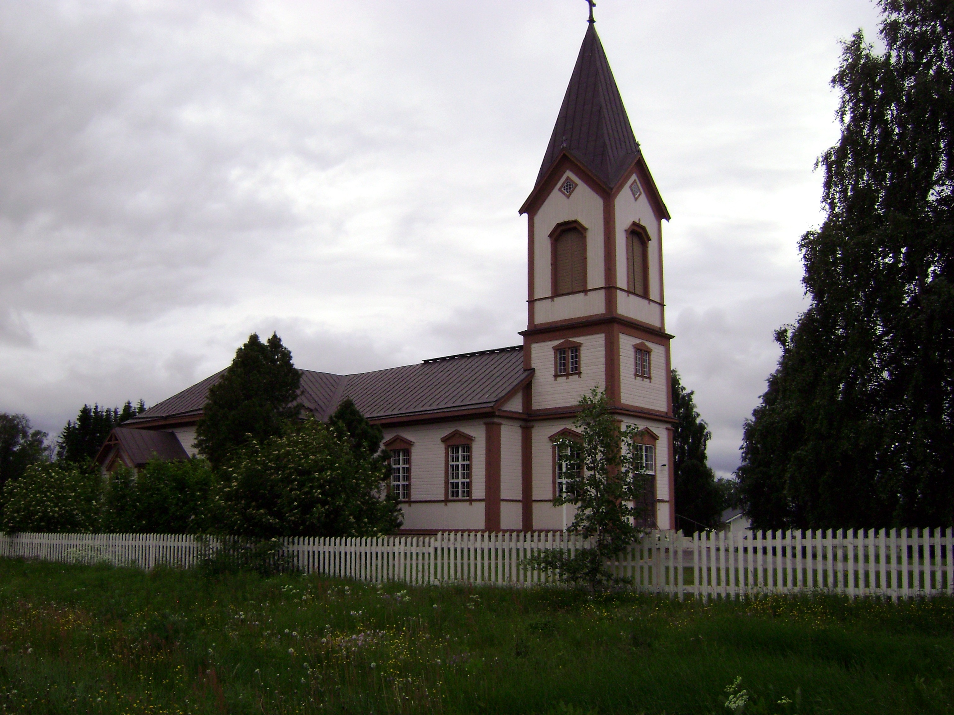 Church of Kittilä, Finland.